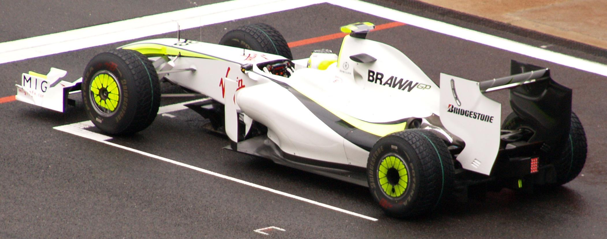 Rubens Barrichello driving for Brawn GP at the 2009 Belgian Grand Prix.